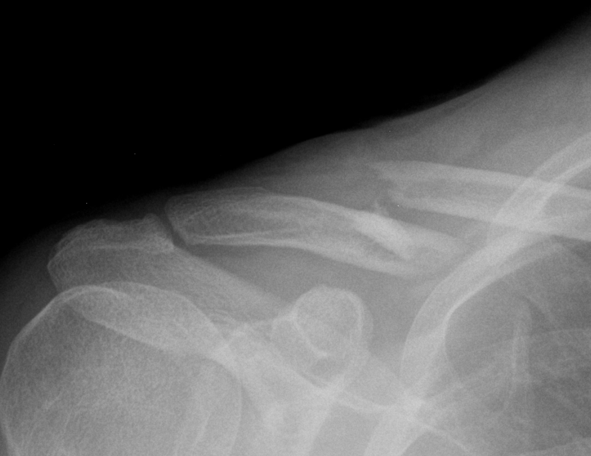 Broken Clavicle bone